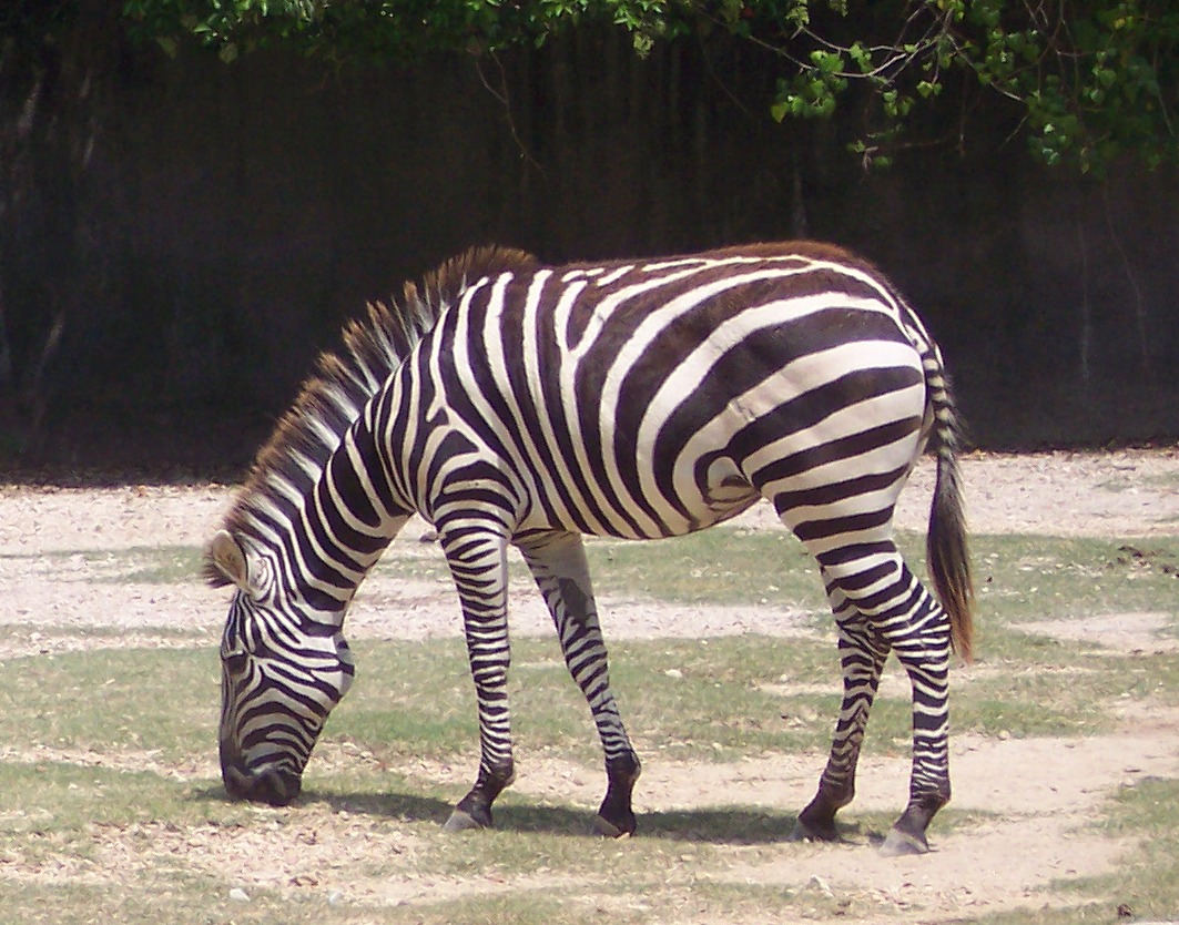 A zebra eating grass.